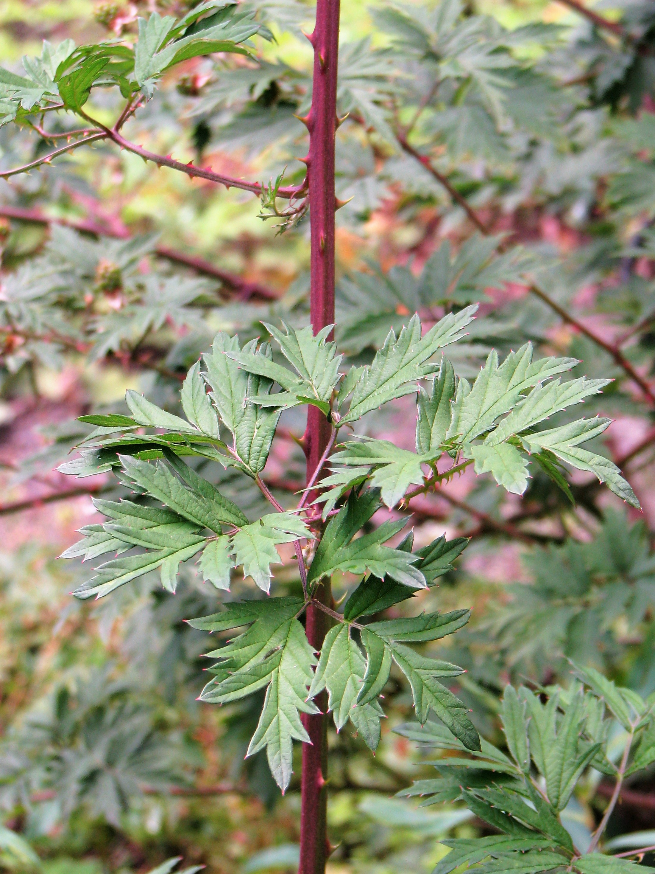 Rubus laciniatus, immature fruit, plant cultivated in Wrocław University Botanical Garden, Wrocław, Poland.